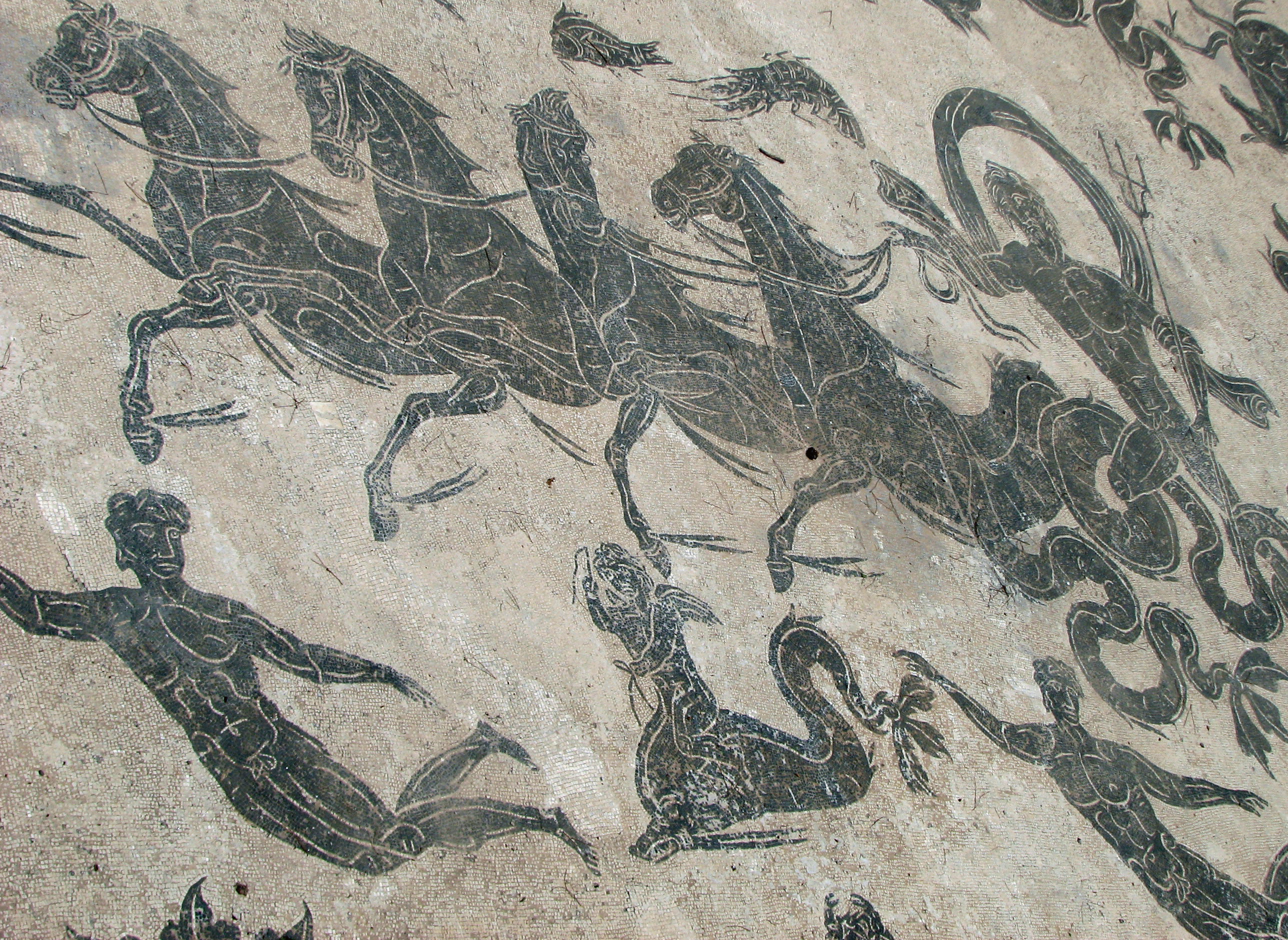 Poseidon in a chariot drawn by hippocampi, surrounded with dolphins, tritons, and Nereids on sea-monsters. Room 4 of the Baths of Neptune, Ostia Antica, Latium, Italy.